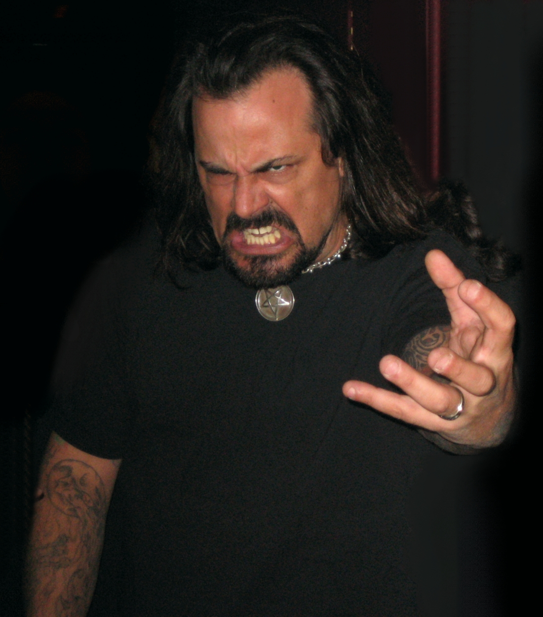 Deicide, Vital Remains, Sadistic Intent at Galaxy Theater 4/5/06